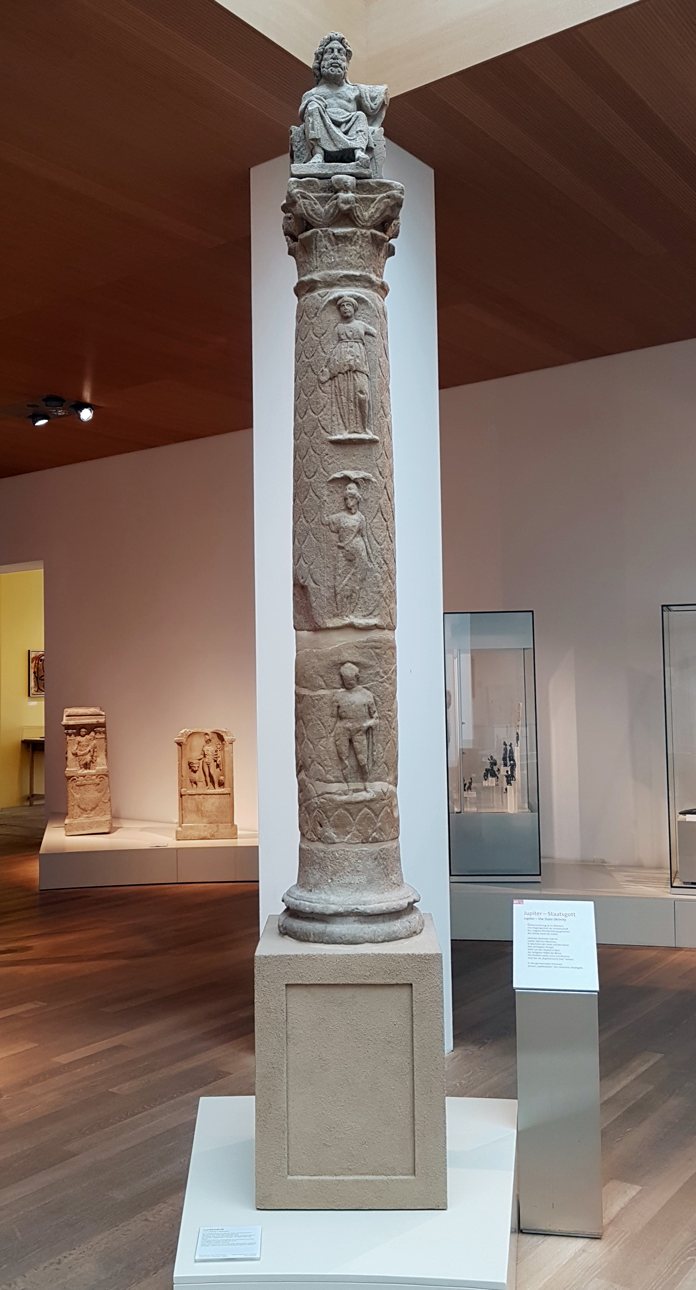 Ancient Roman Jupiter Giant column (late 2nd c. AD) from Erkelenz, near Heinsberg, North-Rhine Westpahalia, Germany, now in the Rheinisches Landesmuseum in Bonn. The statue on top was found in Paulstrasse, Bonn, and was added later to the column.